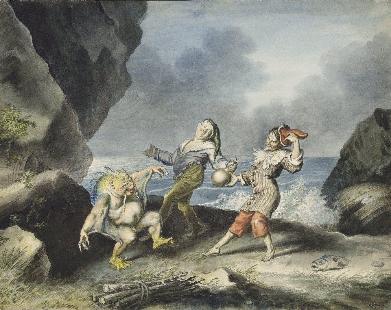 Stephano, Trinculo and Caliban dancing on the island shore from The Tempest